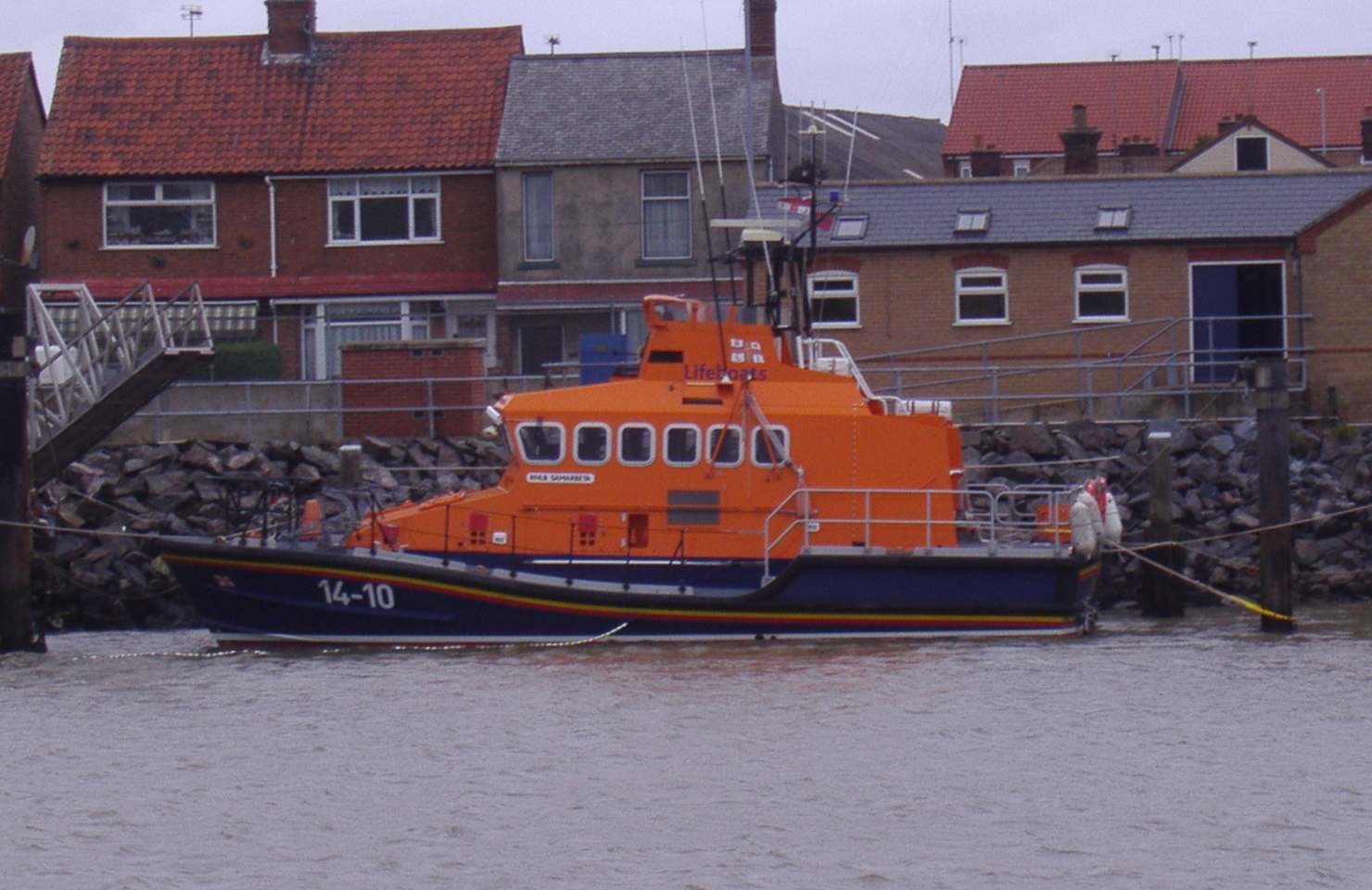 The Great Yarmouth & Gorleston Trent-class Lifeboat RNLB Samarbeta (ON-1208) at her moorings outside the station om the River Yar, Norfolk, United Kingdom